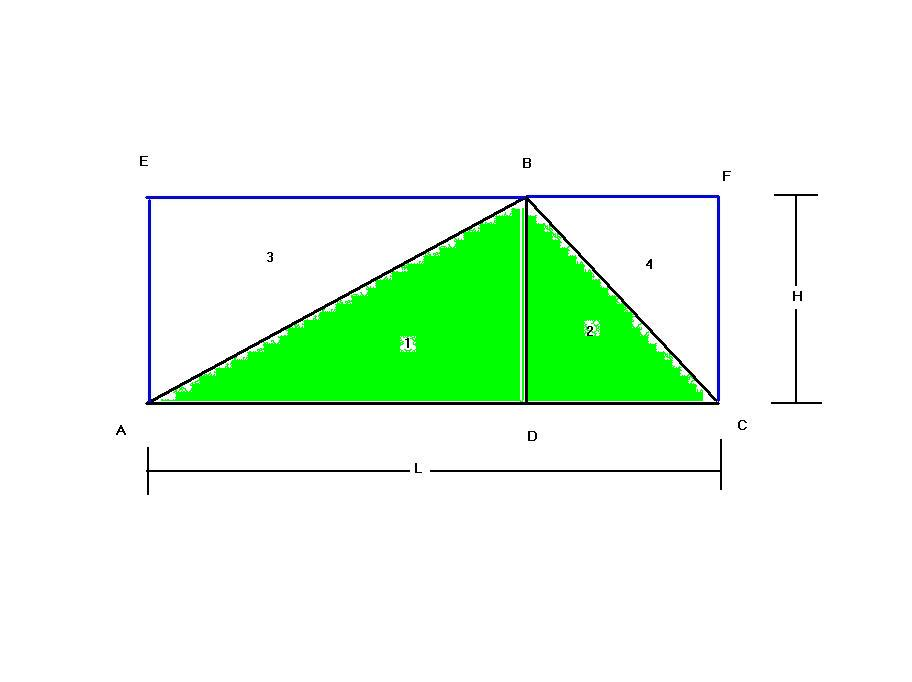 Out In complimentary principle 出入相补原理